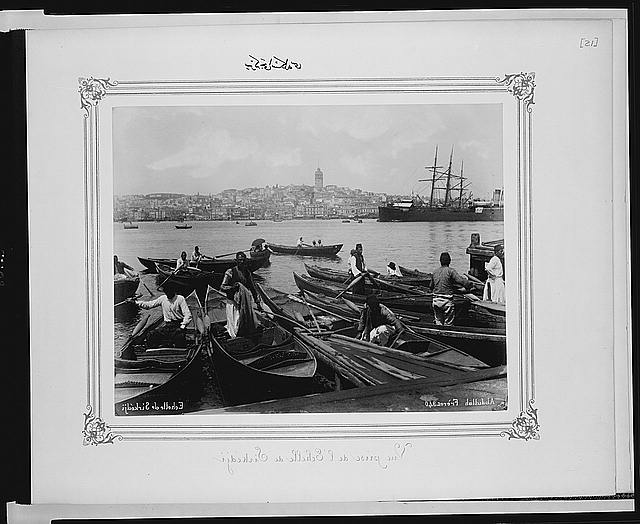 Port of Sirkeci between 1880 and 1893